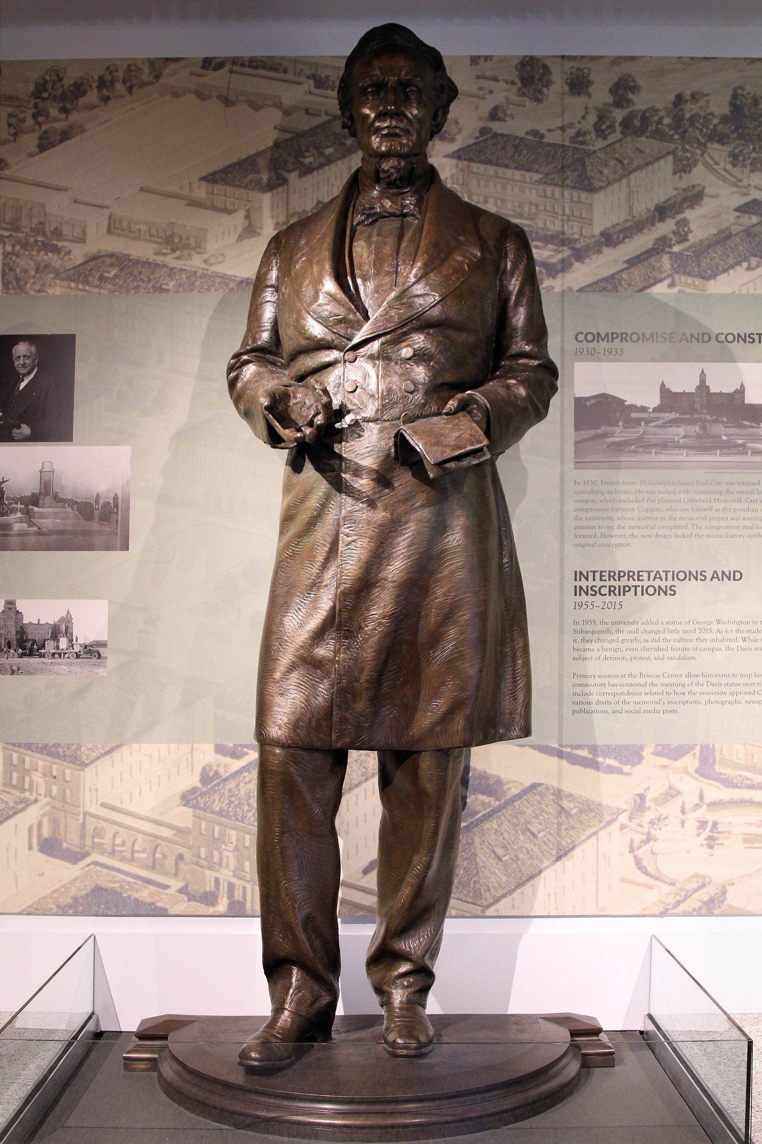 The statue of Jefferson Davis by Pompeo Coppini (1933) that was installed on the south mall of the University of Texas at Austin from 1933 to 2015. Due to the controversial nature of the statue, it was relocated to the Dolph Briscoe Center for American History in Austin, Texas, United States.